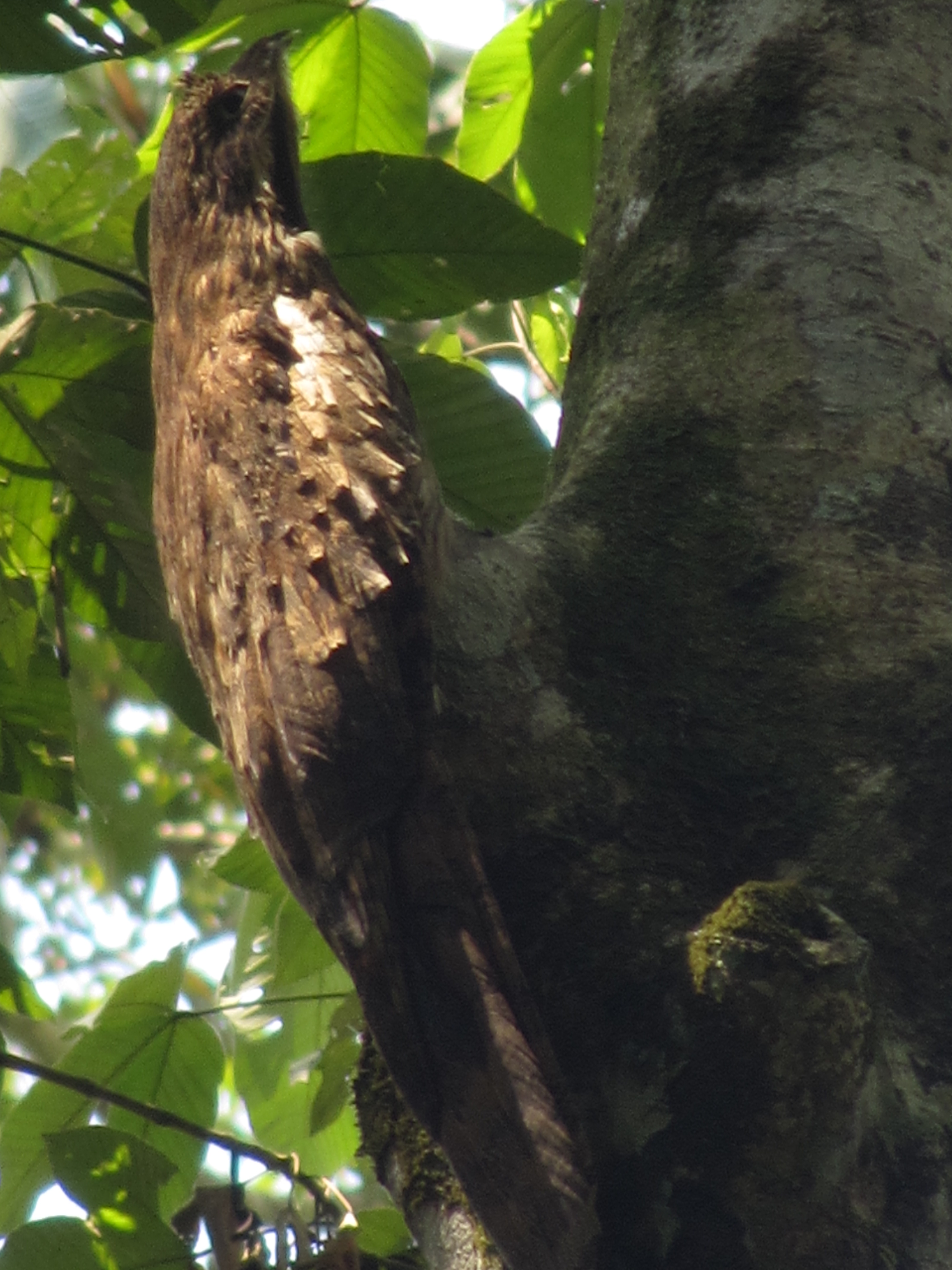 Long tailed Potoo, Peru, Amazon, Photo by Lee R. Berger